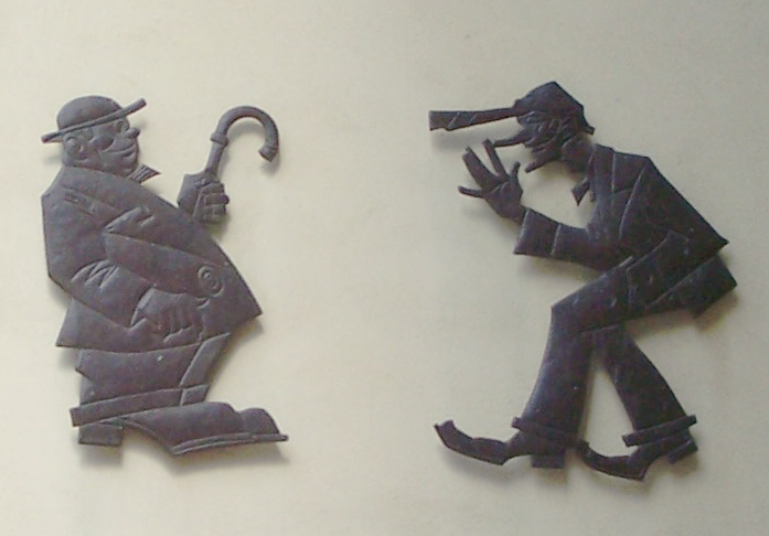 The Eisenacher cartoon figures Henner and Frieder - symbol for the common people.